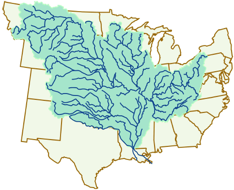 Image of the Mississippi River watershed